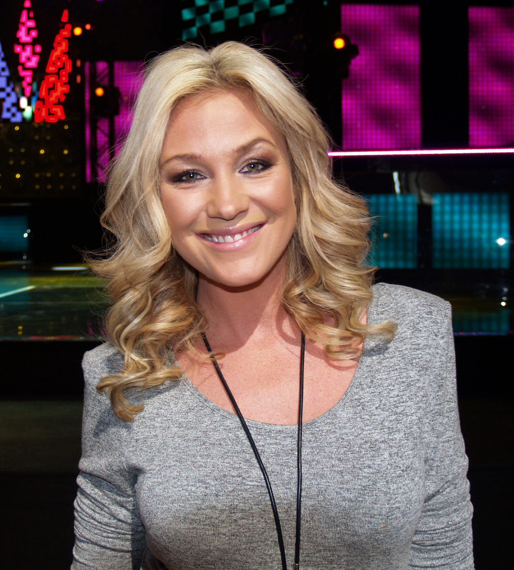 Jessica Andersson at the Second Chance round of Melodifestivalen 2010 in Örebro.